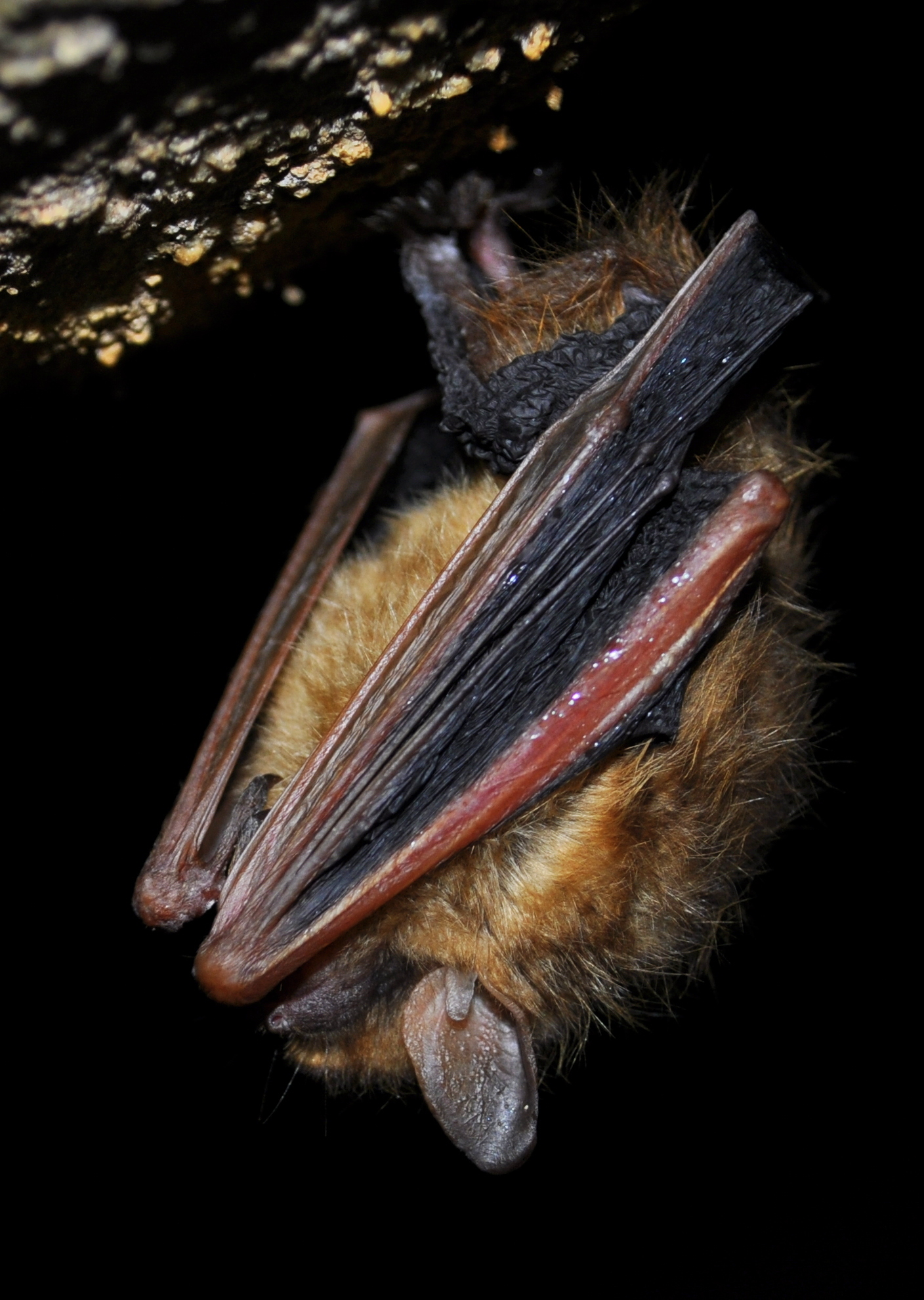 A healthy hibernating tri-colored bat (Perimyotis subflavus)